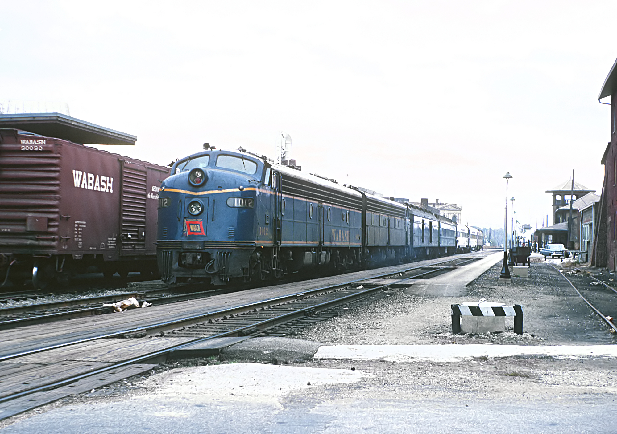 A Roger Puta photograph